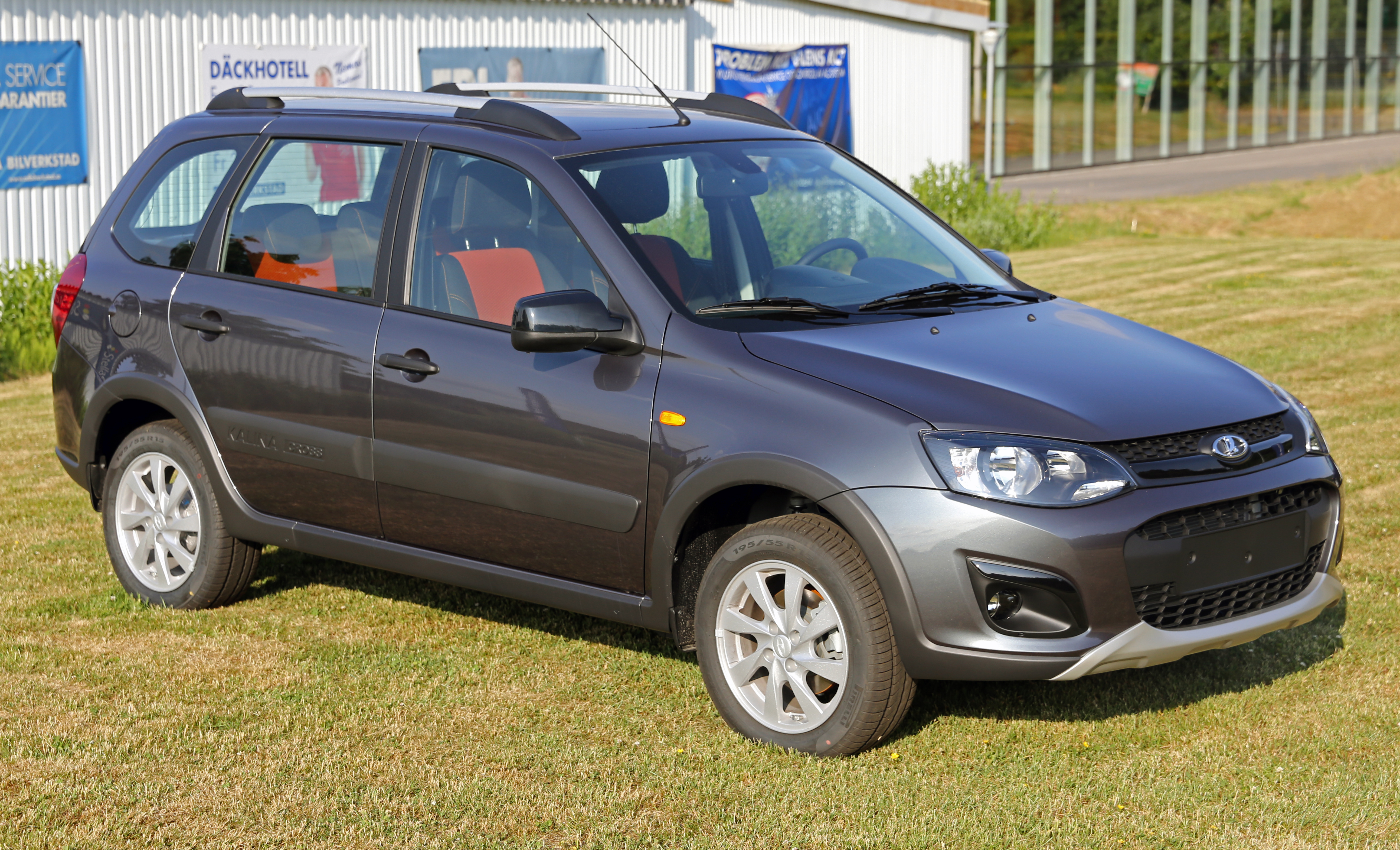 A Lada Kalina Cross (2194) in Sweden. Apparently one can still buy a new Lada in Sweden, although I have never seen one in traffic. Not surprising, as only three new Ladas of all types were registered in 2016, an average of a half car per dealer. 36 were sold in 2015.